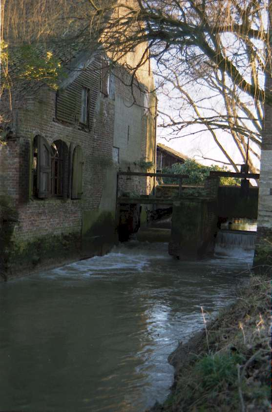 Watermill Koevoetmolen, Londerzeel, Belgium